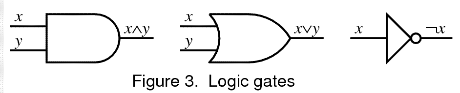 Schematic symbols for AND gates, OR gates, and inverters